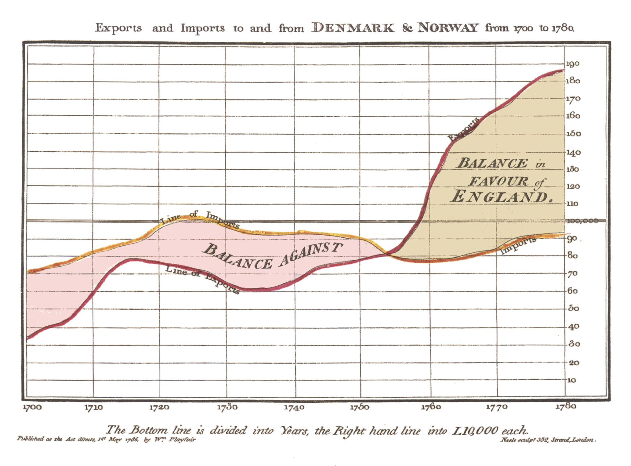 William Playfair's Time Series of Exports and Imports of Denmark and Norway